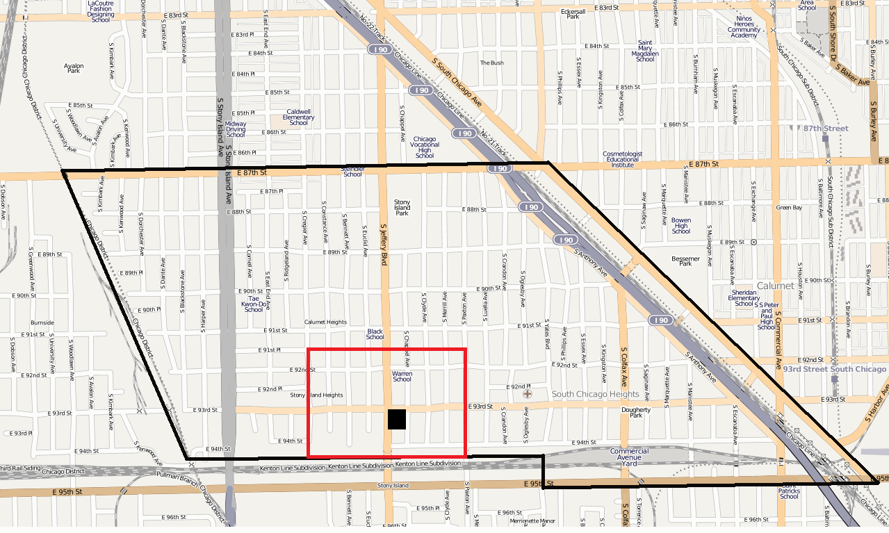 Bronzeville Childrens Museum inside Calumet Heights, Chicago and Pill Hill, Chicago This map may be incomplete, and may contain errors. Don't rely solely on it for navigation.